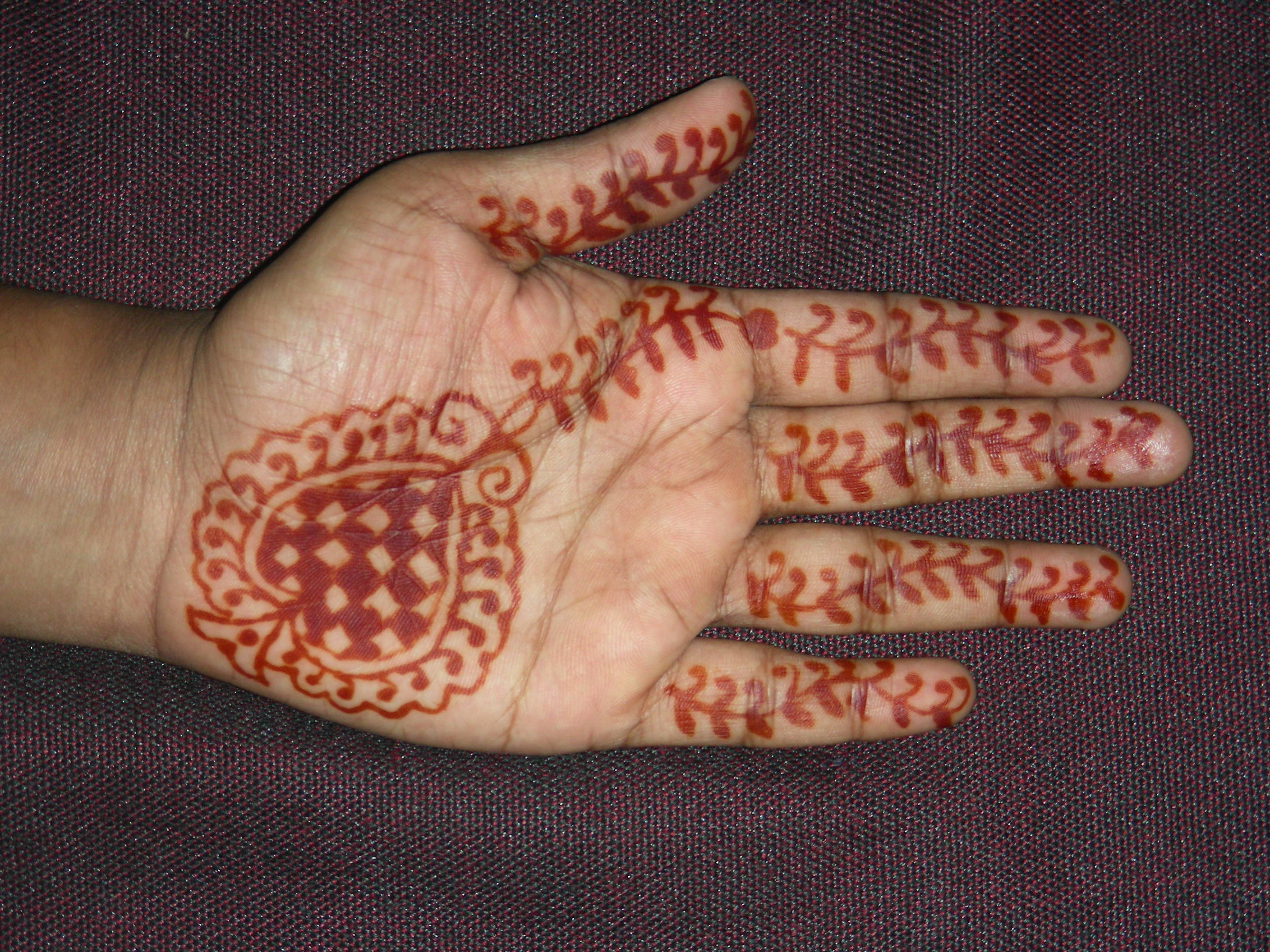 Simple henna (mehandhi) decoration on the left palm of an Indian woman.